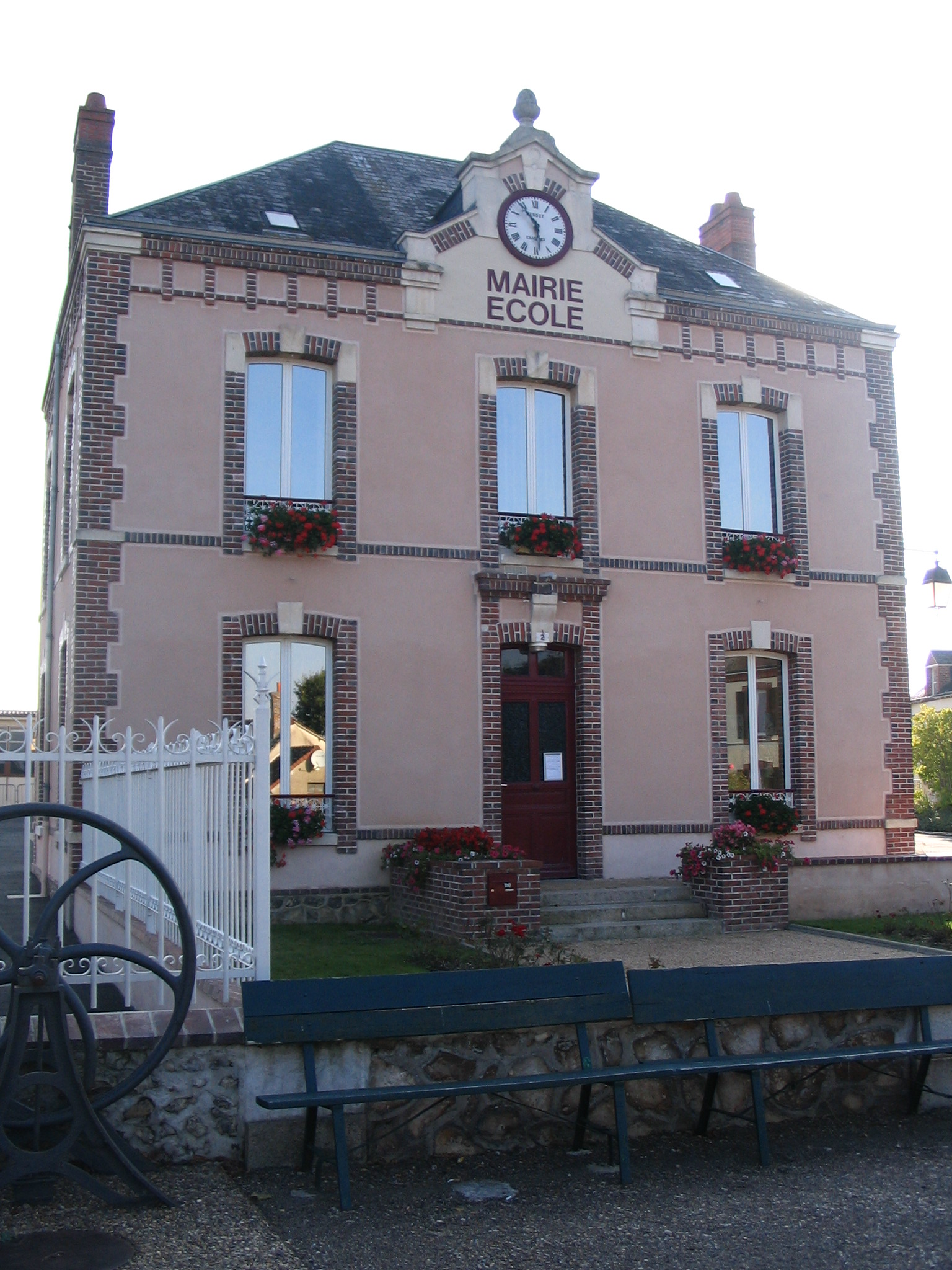 The town hall of Saint-Pellerin, Eure-et-Loir, France